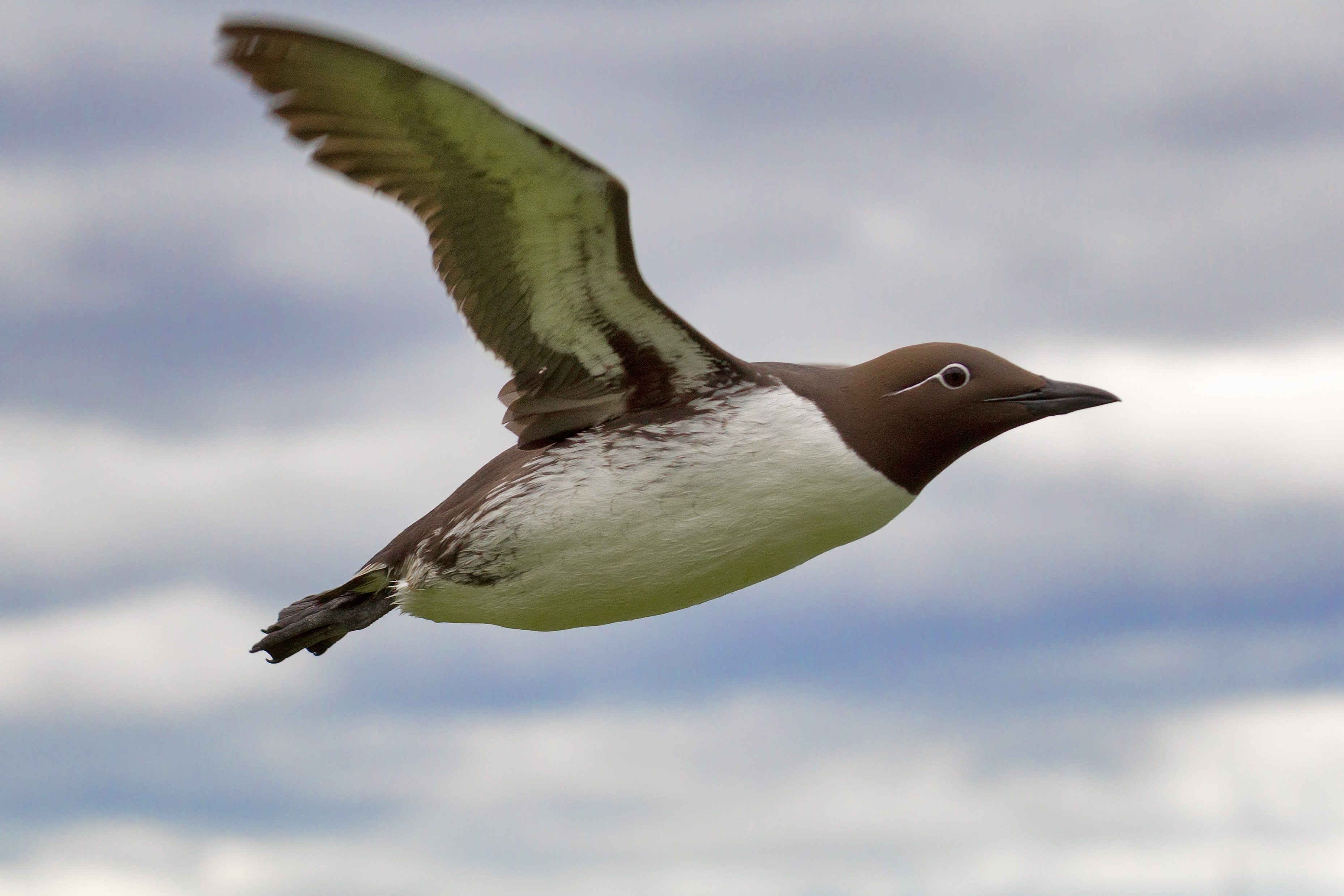 Common Murre